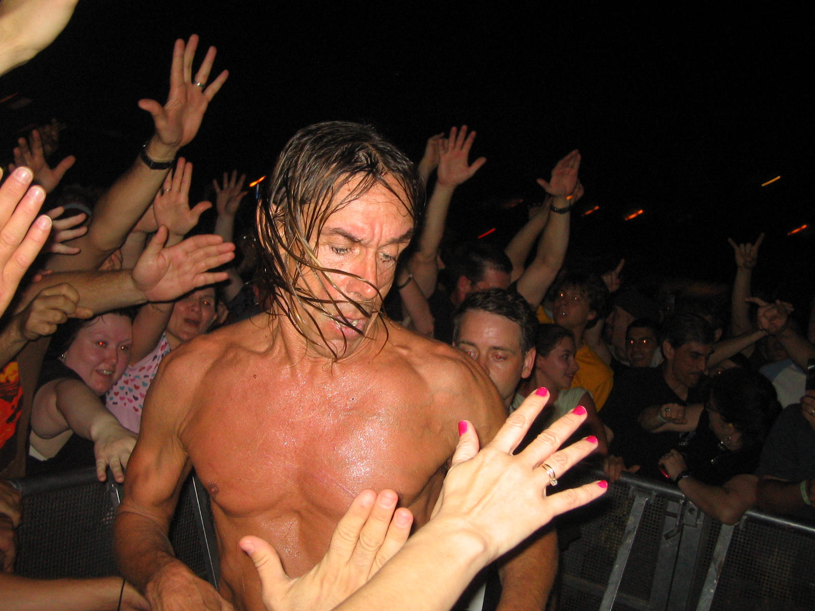 Iggy Pop performing with The Stooges at Beale St. Music Festival, Memphis in May 2007. Photo by Bill Dierssen